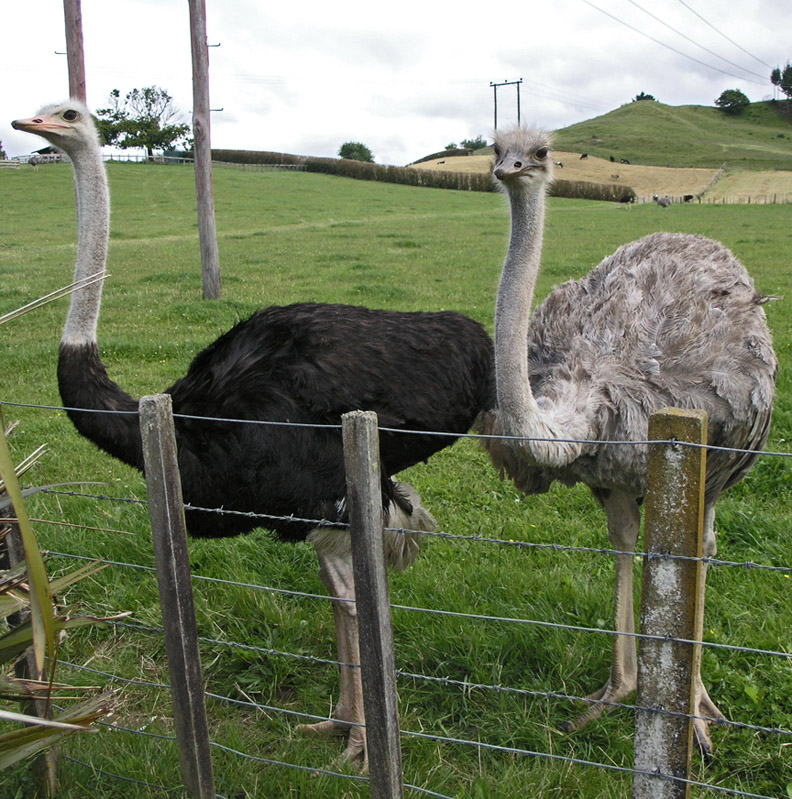 This is an image I took myself using an Olympus C8080W digital camera. It shows a male and female ostrich on a farm in New Zealand.